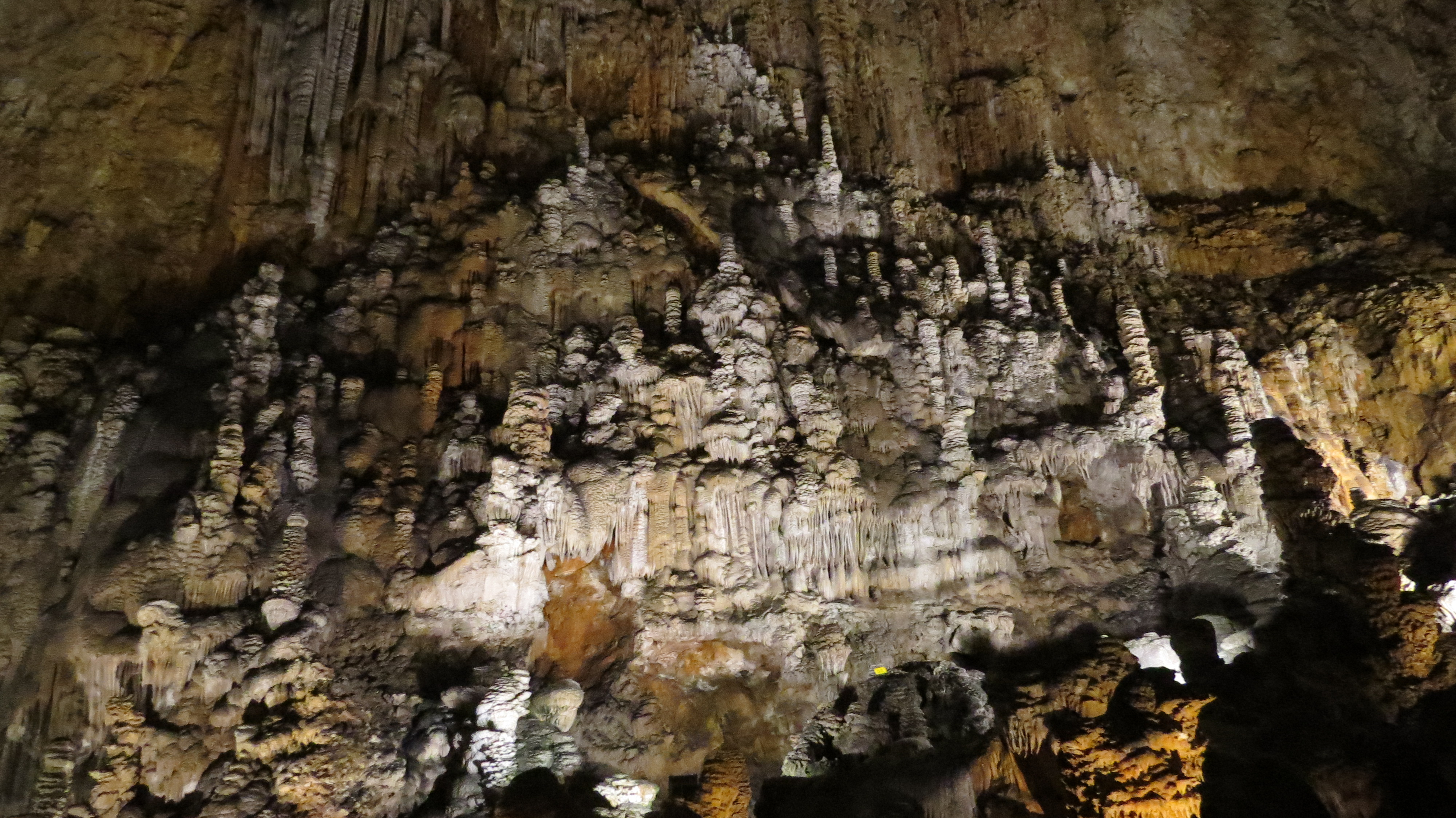 Cave decorations in Grotta Gigante, Trieste Karst, Italy. Its central cavern is 107 m (351 ft) high, 65 m (213 ft) wide and 130 m (430 ft) long, putting it in the 1995 Guinness Book of Records as the world's largest tourist cave.